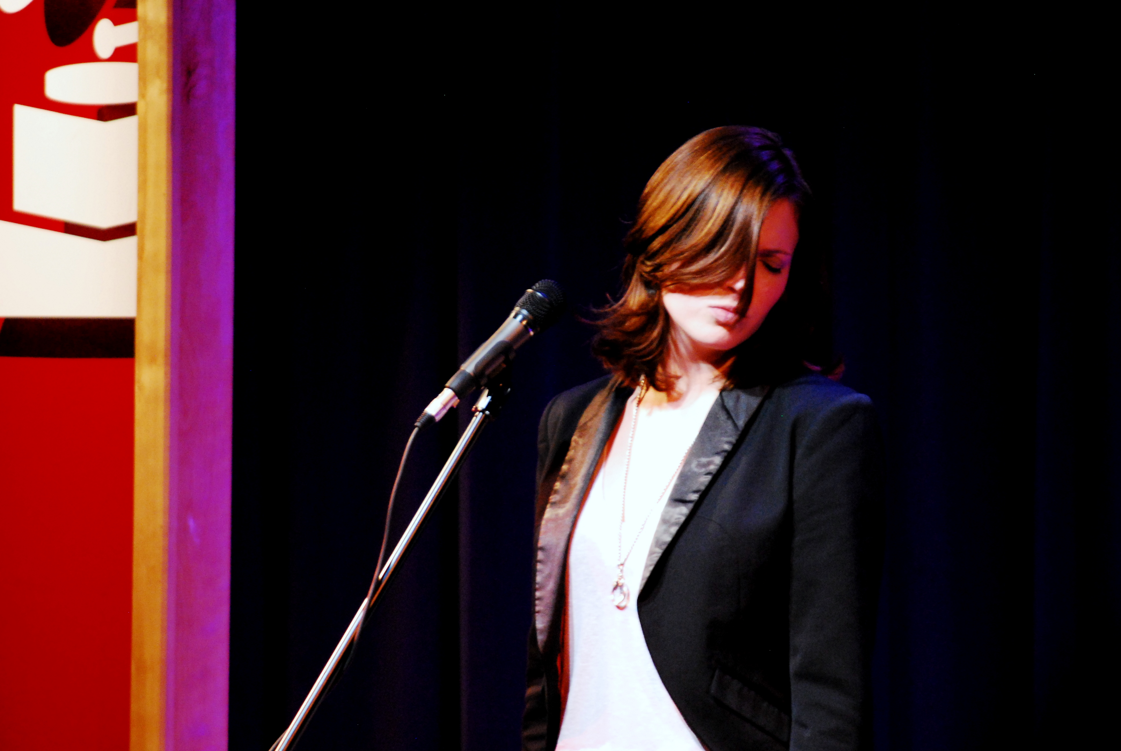 Mandy Moore at the GRAMMY Museum June 09